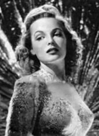 Photo of Elyse Knox from U.S. army Magazine, "Yank, the Army Weekly", 1943